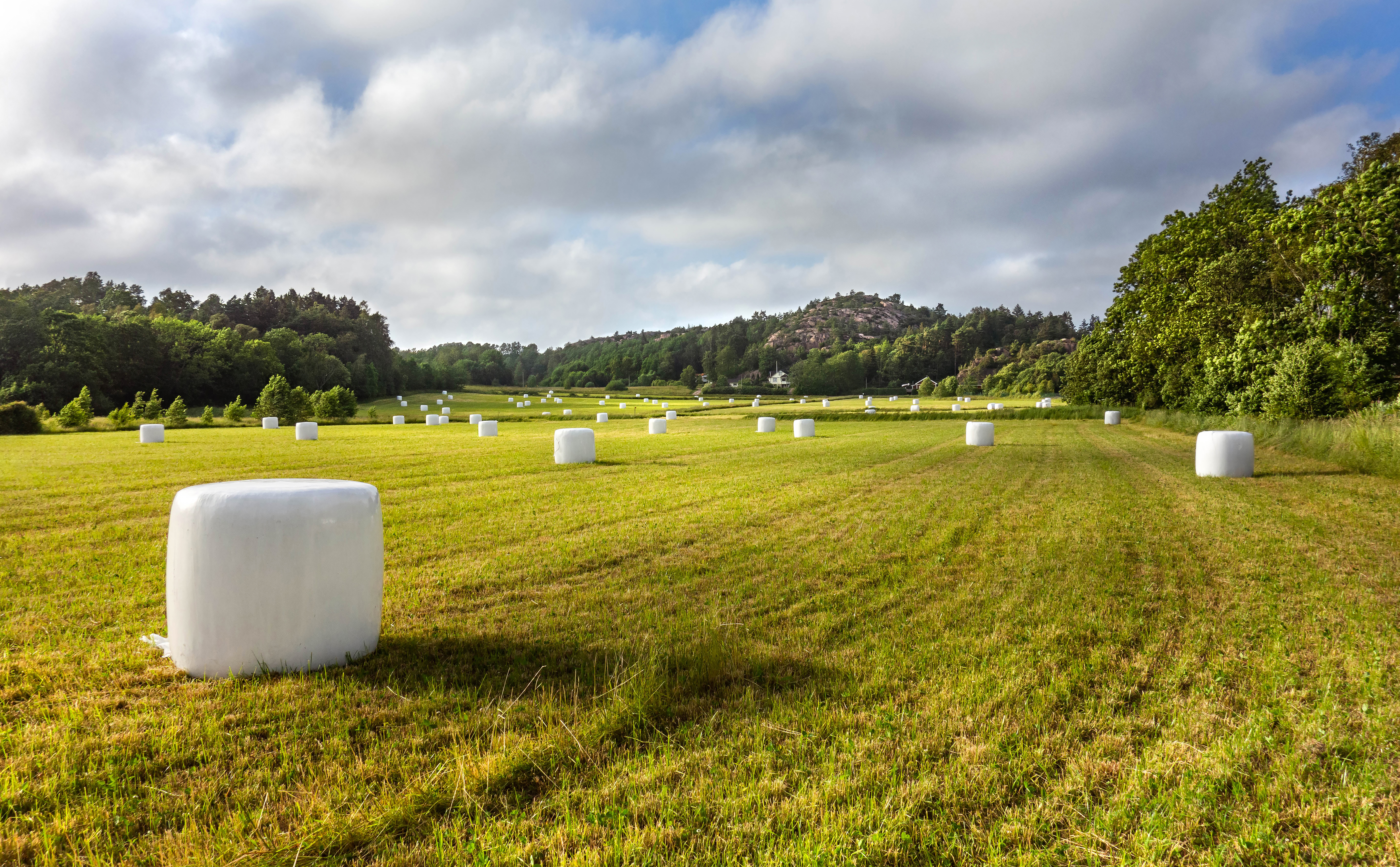 Field with white silage bales in Övre Tuntorp, Brastad, Lysekil Municipality, Sweden.